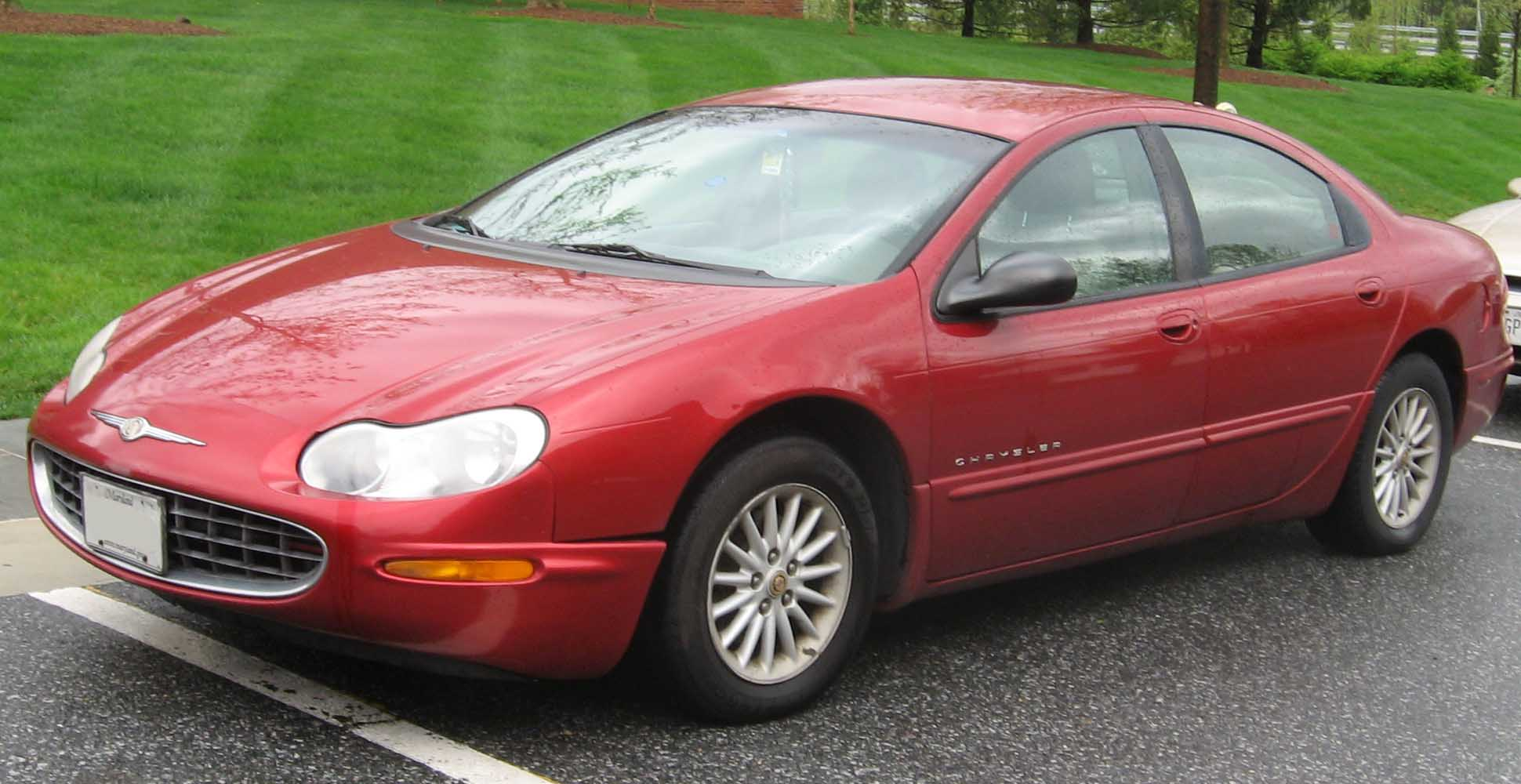 1998-2004 Chrysler Concorde photographed in College Park, Maryland, USA.